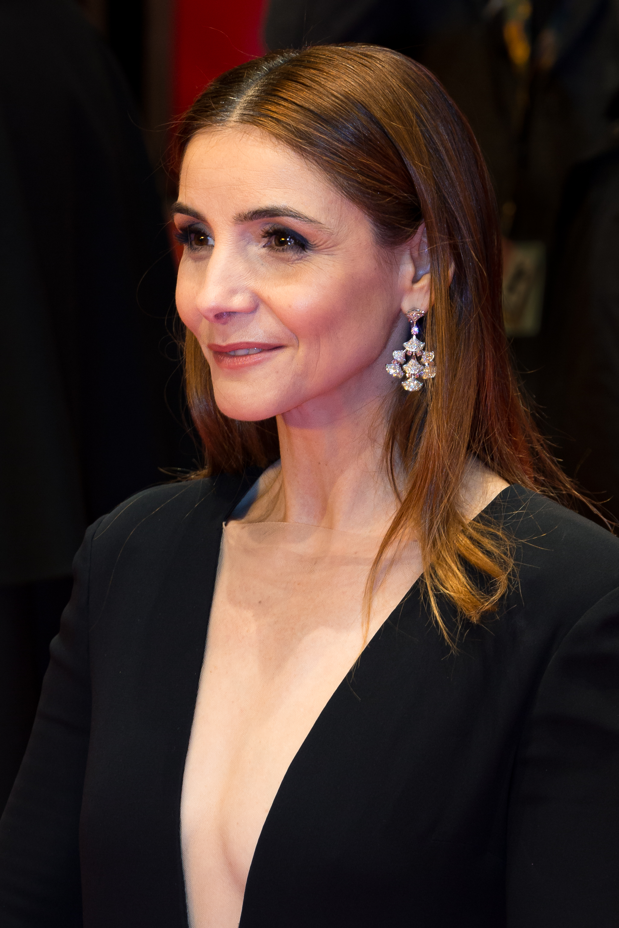 Clotilde Courau on the red carpet of the Berlinale 2017 opening film